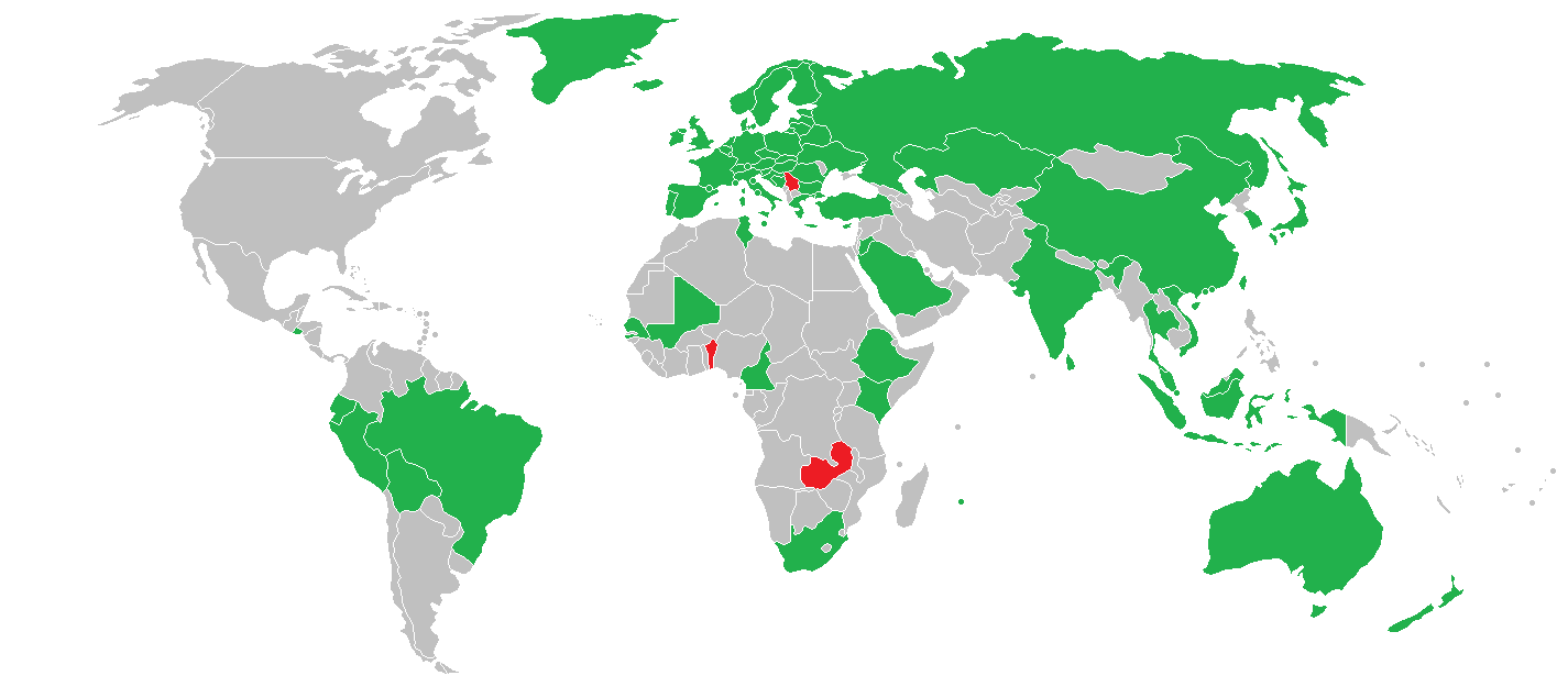 Green: Mandatory labeling Red: Ban on import and cultivation of GMOs 64 countries as of 10 May 2015. Source for data:Center for Food Safety